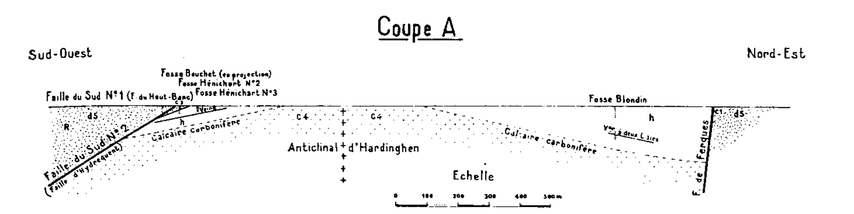 More informations in the French article Mines du Boulonnais.